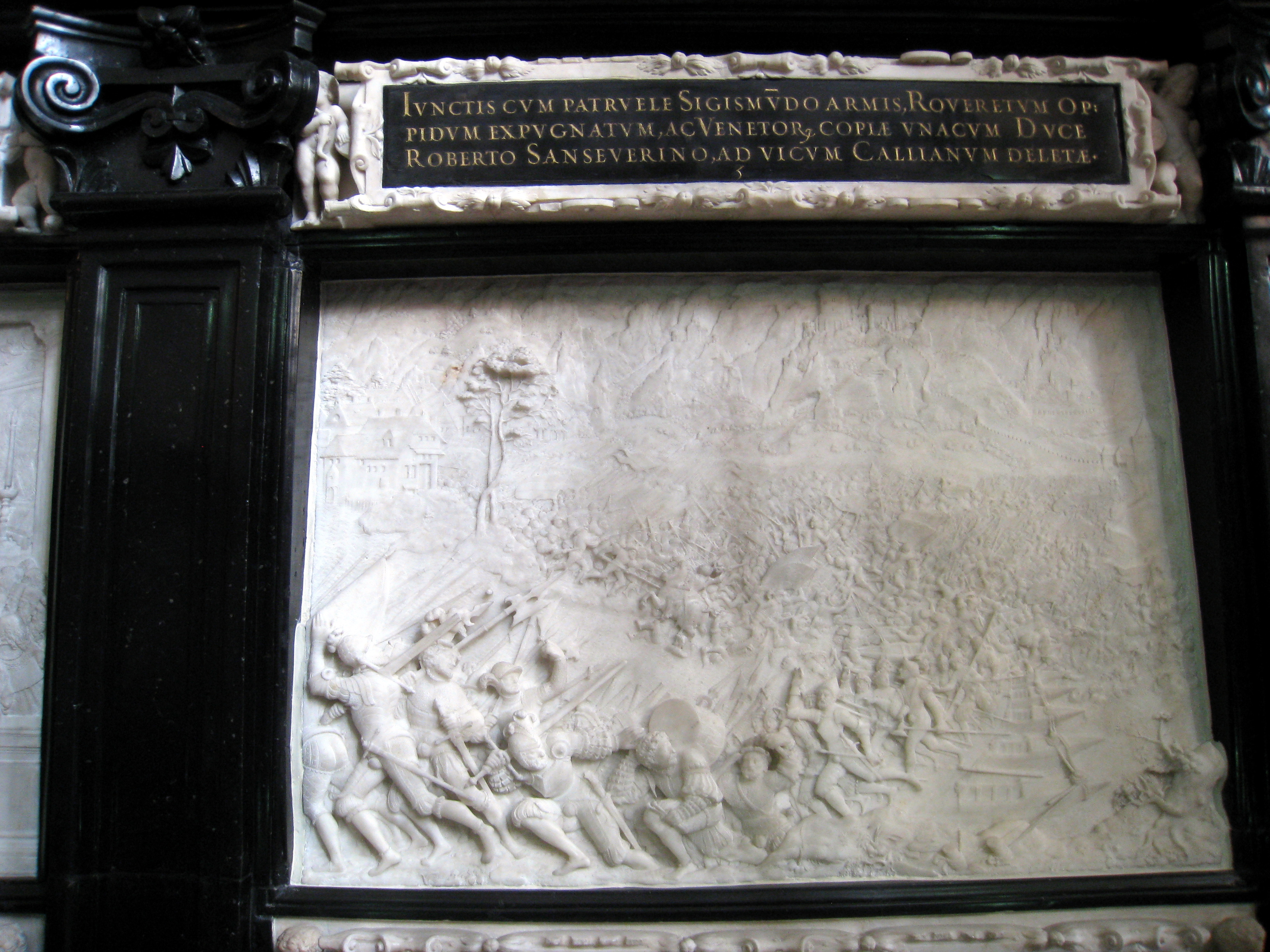 Hofkirche, Innsbruck, Austria - cenotaph of Maximilian I - relief by Alexander Colin based on wood carvings by Albrecht Durer.